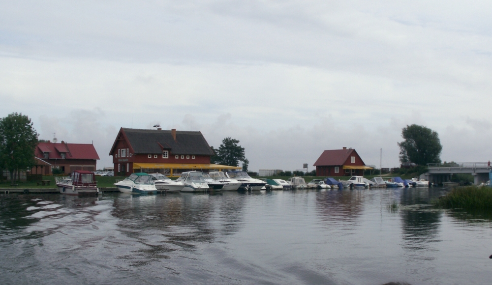 Mingė is becoming a popular water tourism center.